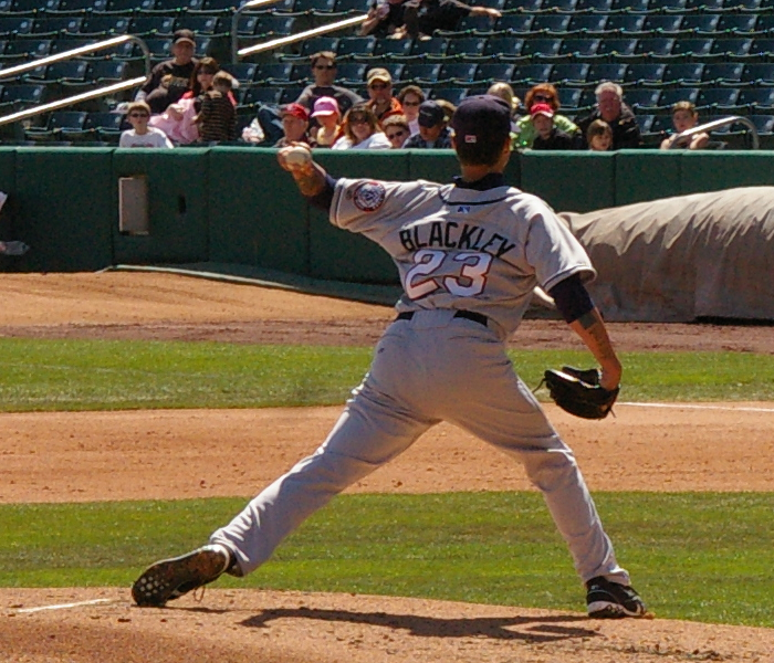 Travis Blackley